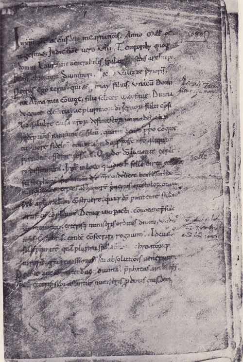 First page of the Supetar Cartulary (12th century) (a collection of charters from 11th and 12th century in affiliation to the monastery of St. Peter in Poljice, Croatia)